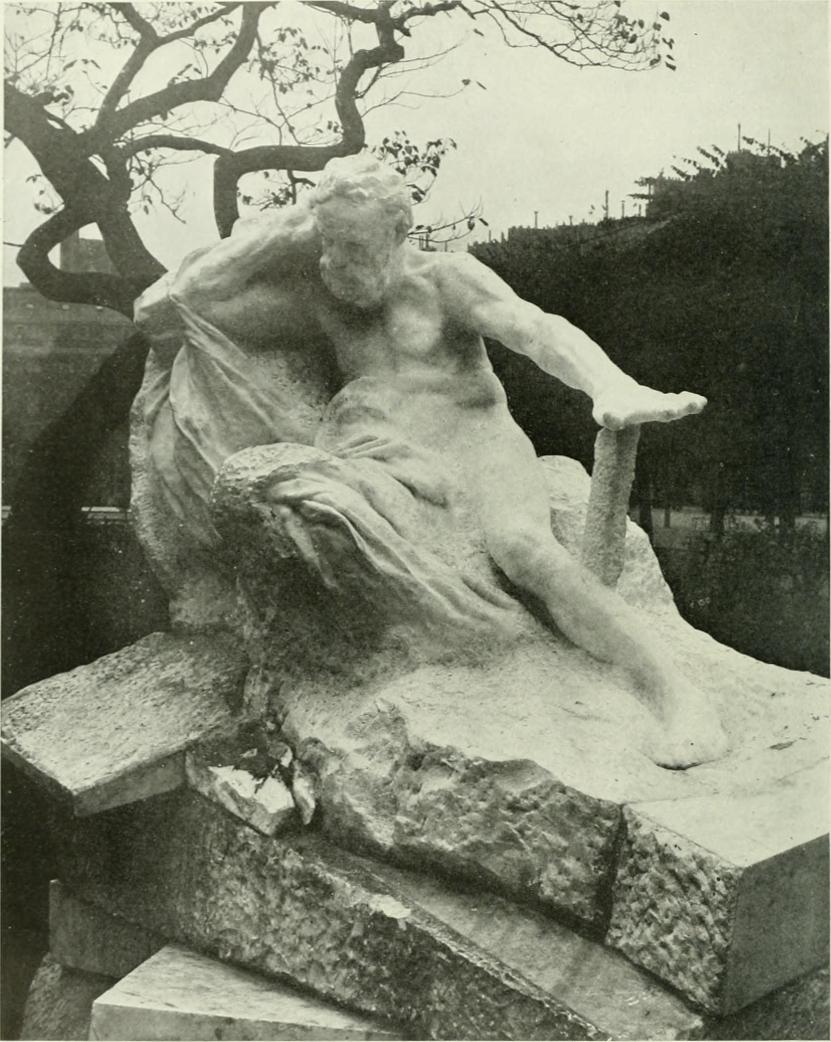 Victor Hugo in the gardens of the Palais Royal, by Auguste Rodin Title: International studio Year: 1897 (1890s) Authors: Subjects: Art Decoration and ornament Publisher: New York Text Appearing Before Image: monument. Thus, thanks to Rodin, thehotel Biron continues to flaunt its uselessness inthe face of an outraged utilitarianism. Certainly a more appropriate use could notbe found for this fine old edifice than in conse-crating it to the great works of art which Rodinis presenting to his country. A touching condi-tion is attached to Rodins gift. It is that hehimself be permitted to remain to the end of hisdays under the same roof which gives a home to the products of his art. Thus the Musee Rodin is no longer a dreambut a reality. It will in all time give added lustreto the glory of Paris. Here lovers of art will findthe best examples of antique sculpture and ceram-ics from Greece, Rome and Egypt; and of a rarecollection, made by the great sculptor himself, ofthe paintings of Monet, Renoir, Manet, Ziem,and others of the Impressionist School, as well asline examples of the great painter, Zuloaga, andother modern master^ But above all. here are found the magnificent . / Musee Rodin in Paris Text Appearing After Image: VICTOR HUGO IN THE GARDENS OF THE PALAIS ROYAL BY AUGUSTE RODIN collection of Auguste Rodins own works. Ofthese there are not less than eighteen hundred,including his drawings. The famous Gakis here, that vast conception which hitherto onlythose privileged persons who have visited themasters studio have been able to see. TheSphynx is here, also new to the public, as well as the Balzac. Adam, the Bronze Age, besides many-others already familiar to us. When these worlds battles are over, and menwill turn from the preoccupations of the war to the eternal beauty of art. many will be the pil-grims from all the countries of the world to thatshrine of beauty, the Musee Rodin. Walter Griffin, Artiste